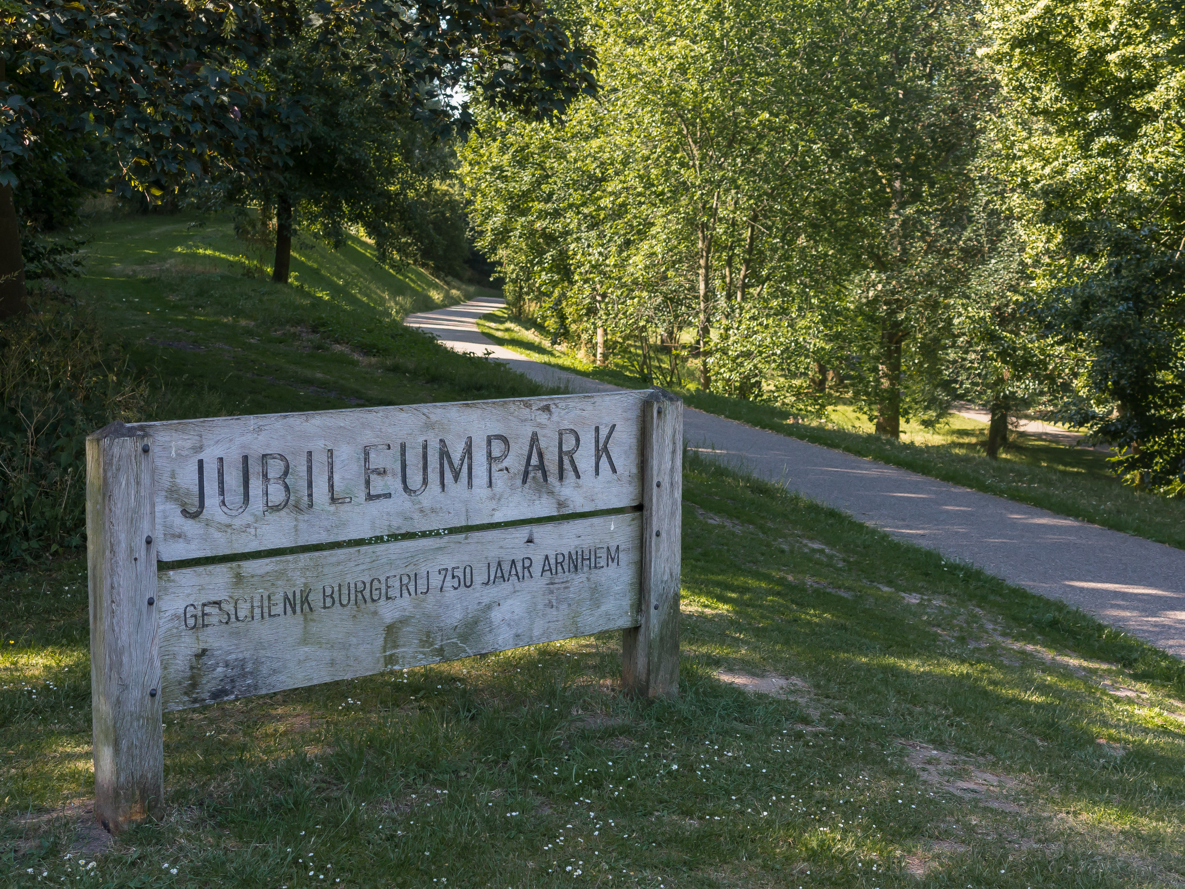 Arnhem-De Laar, entry Jublieumpark